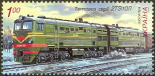 Stamp of Ukraine